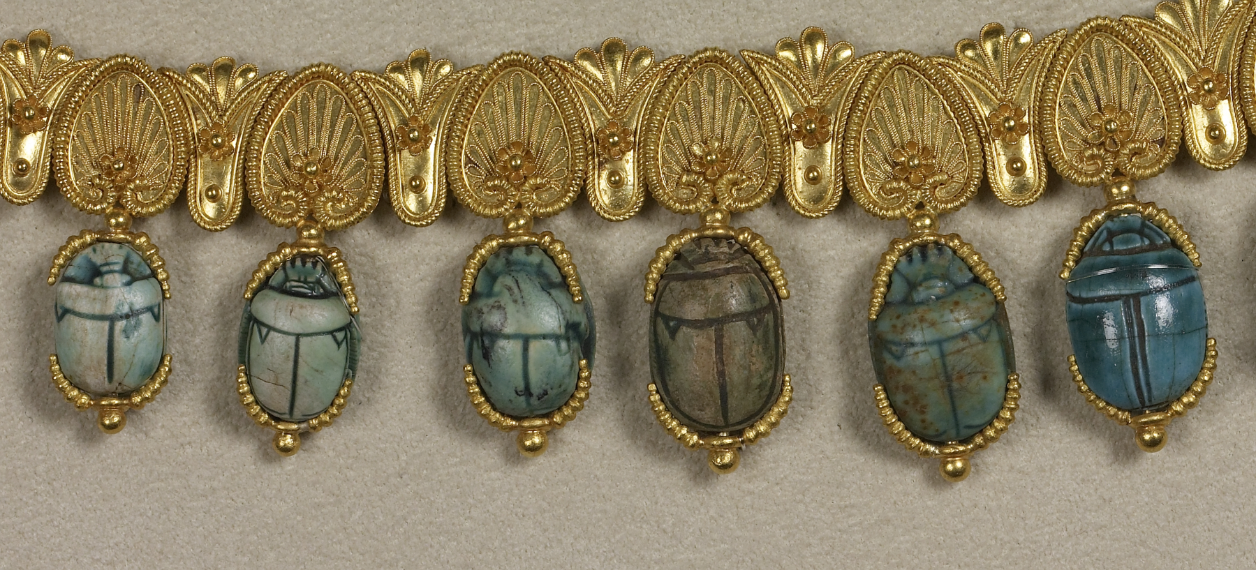 Archaeological jewelry decorated with ancient and modern scarabs was popular in Europe during the second half of the 19th century. The Castellani workshop was famous for its copies of ancient jewelry, and this necklace has been attributed Giacinto Melillo, one of Alessandro Castellani's apprentices and protégés (this necklace bears his mark on the clasp). He later took over Castellani's workshop in Naples, which Henry Walters visited in 1903.